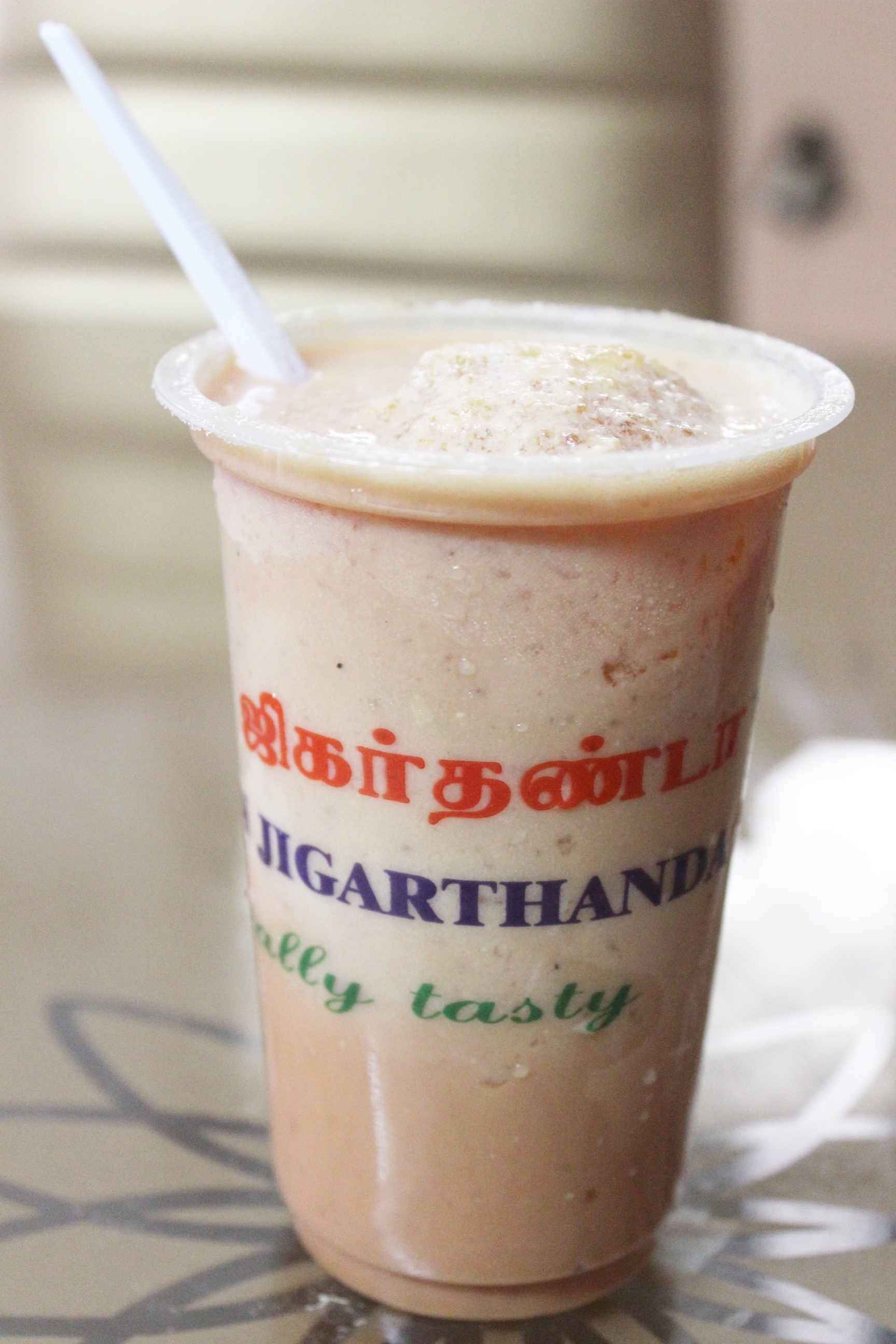 Jigarthanda is made by mixing badam pisin, nannari sharbat, sugar and milk cream with a layer of basundhi.